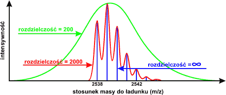 Resolution of Mass Spectrometer (MS). (Polish descriptions)